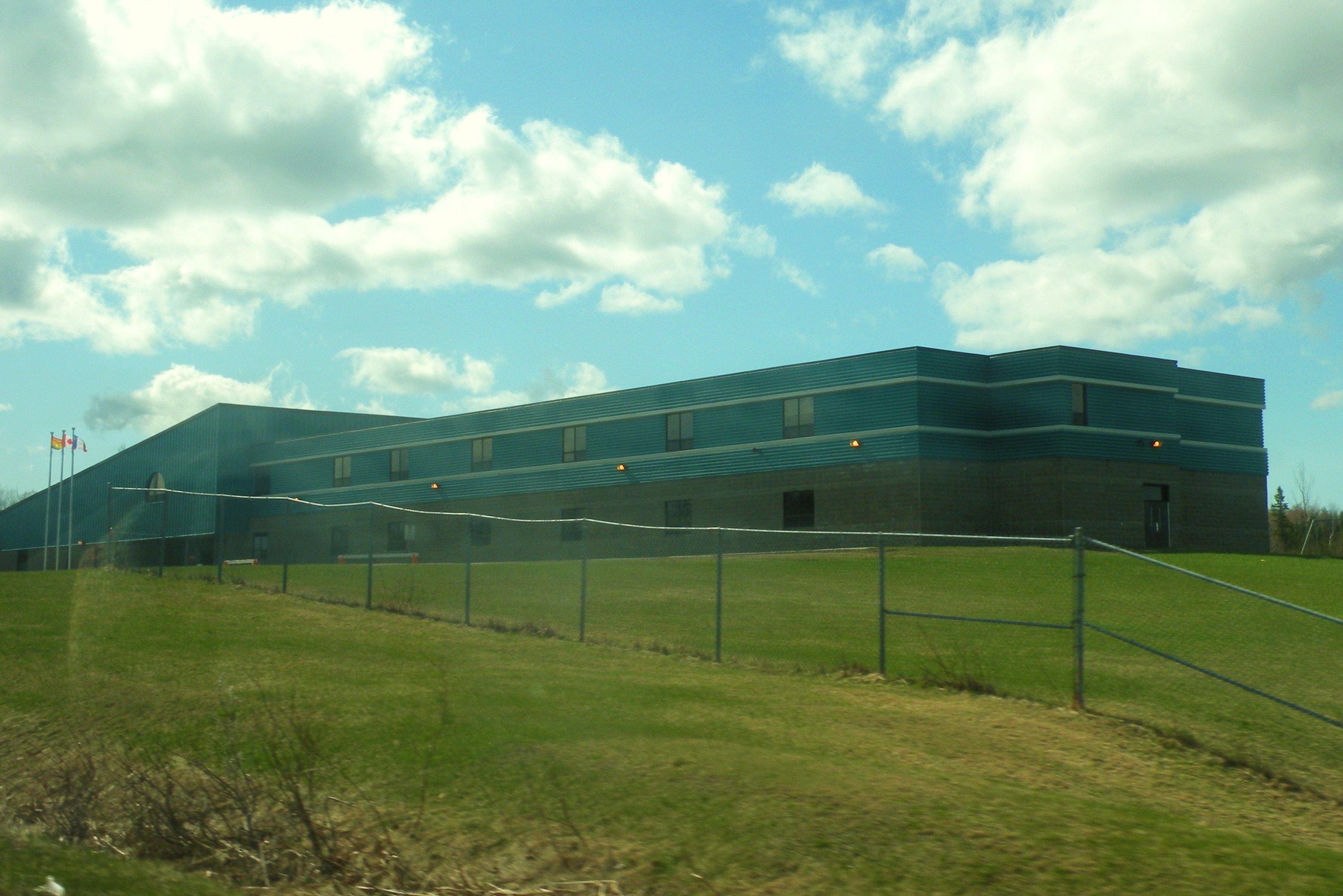 La Passerelle school in Pont-Landry, New Brunswick, Canada.